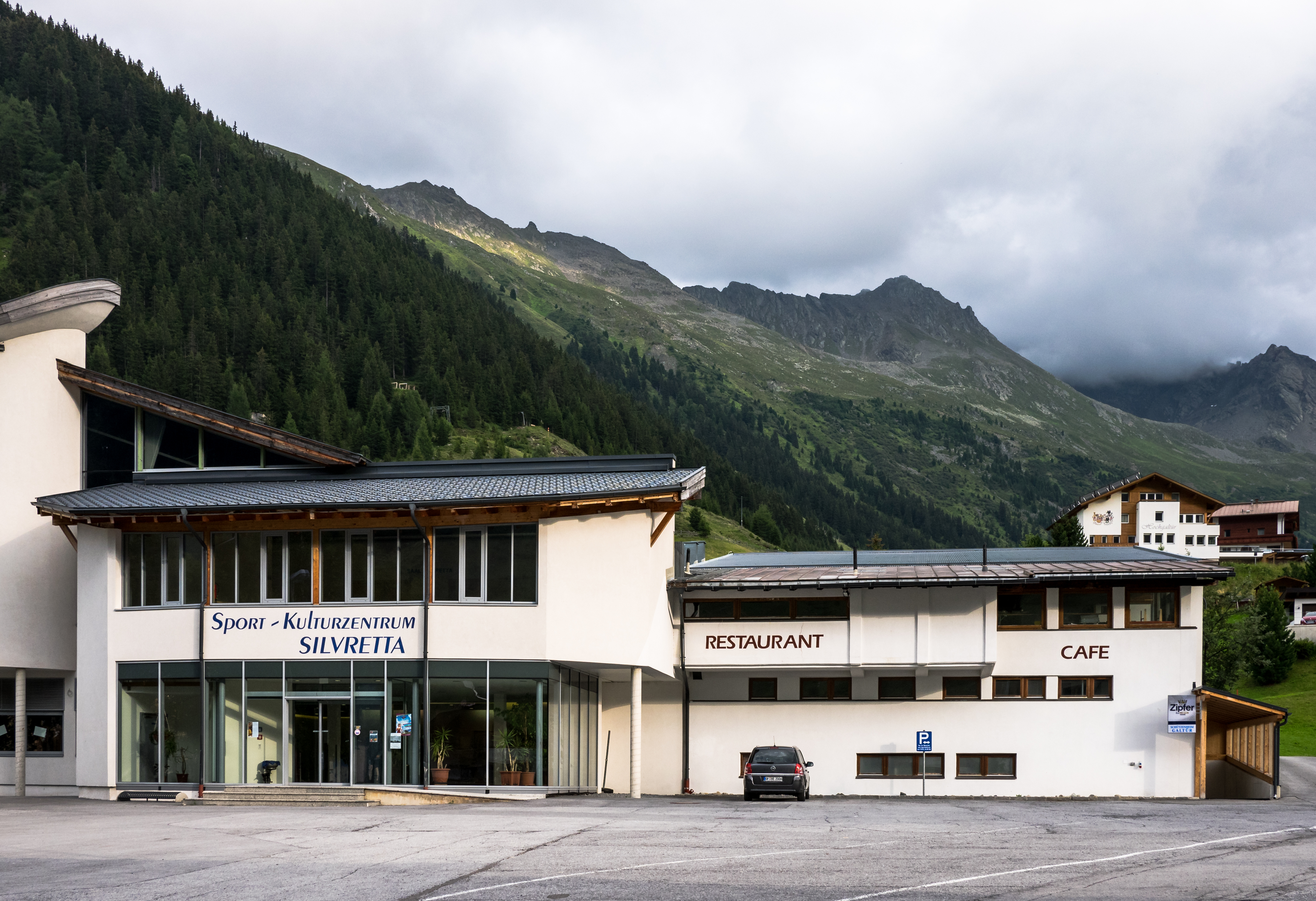 Sports and culture centre Silvretta in Galtür. Paznaun, Tyrol, Austria